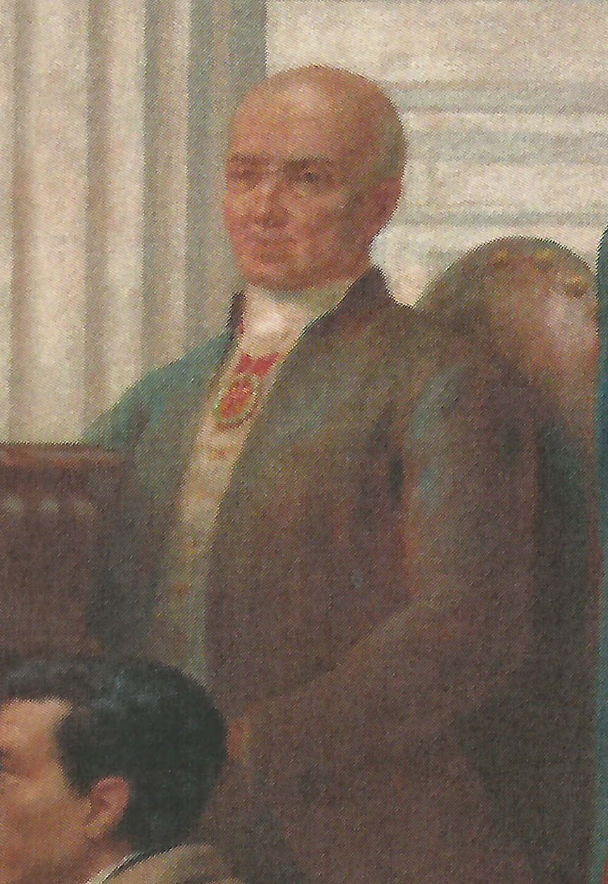 "Portuguese Medicine" (c. 1906), by Veloso Salgado